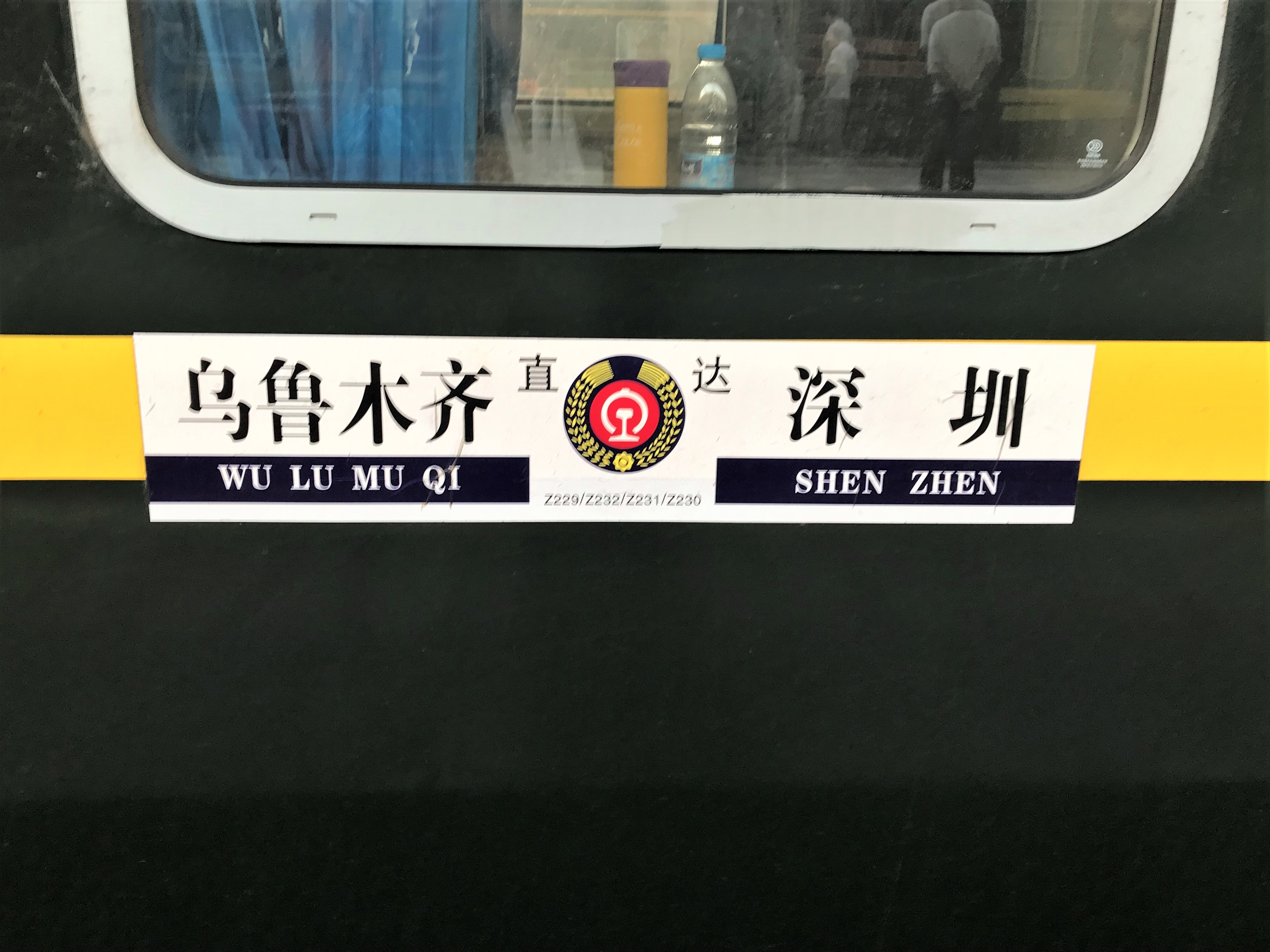 Z229-230-231-232 train infoboard in 201906